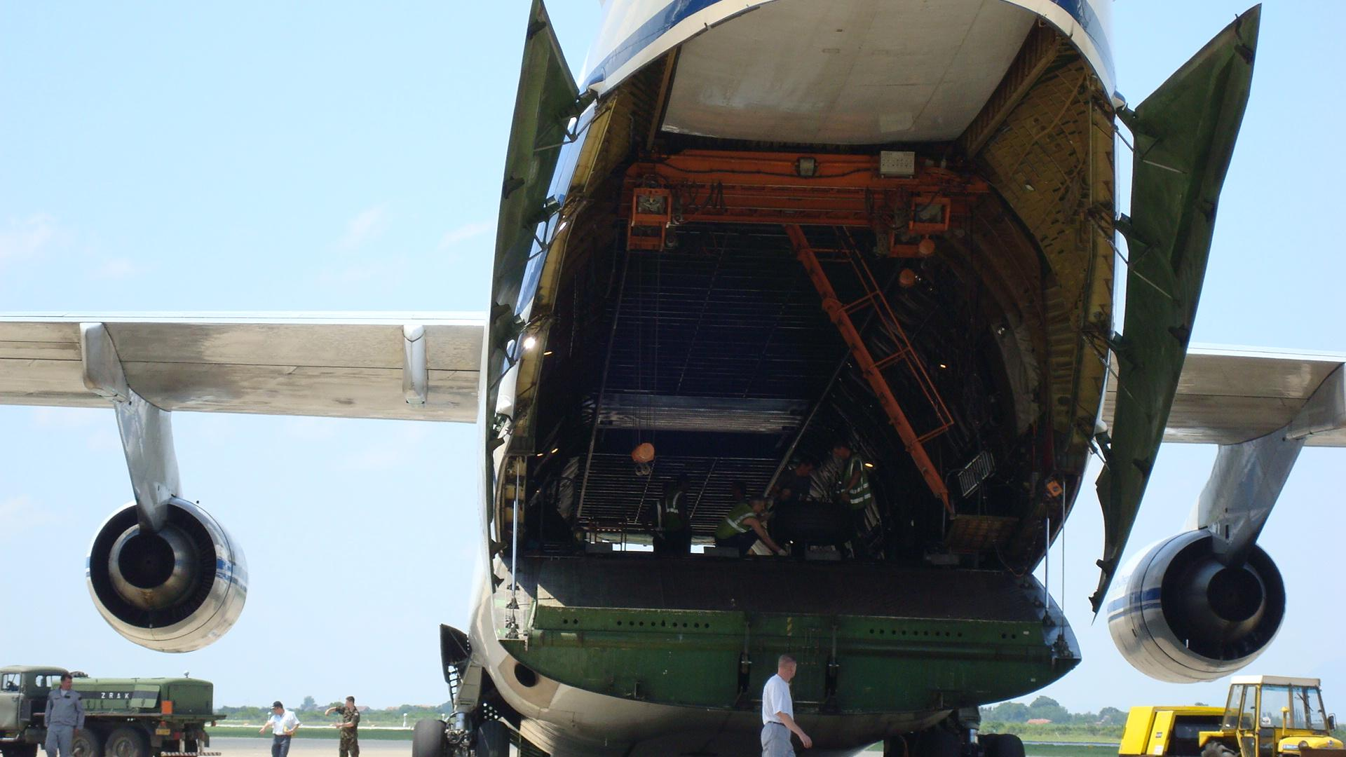 Antonov An-124 backward store view